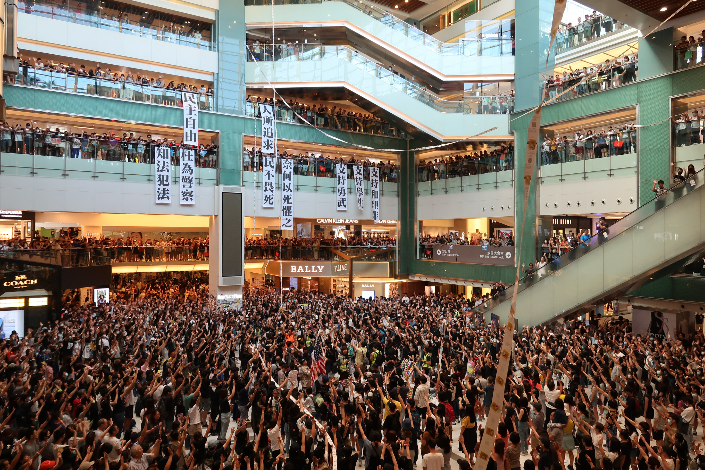 New Town Plaza Atrium view